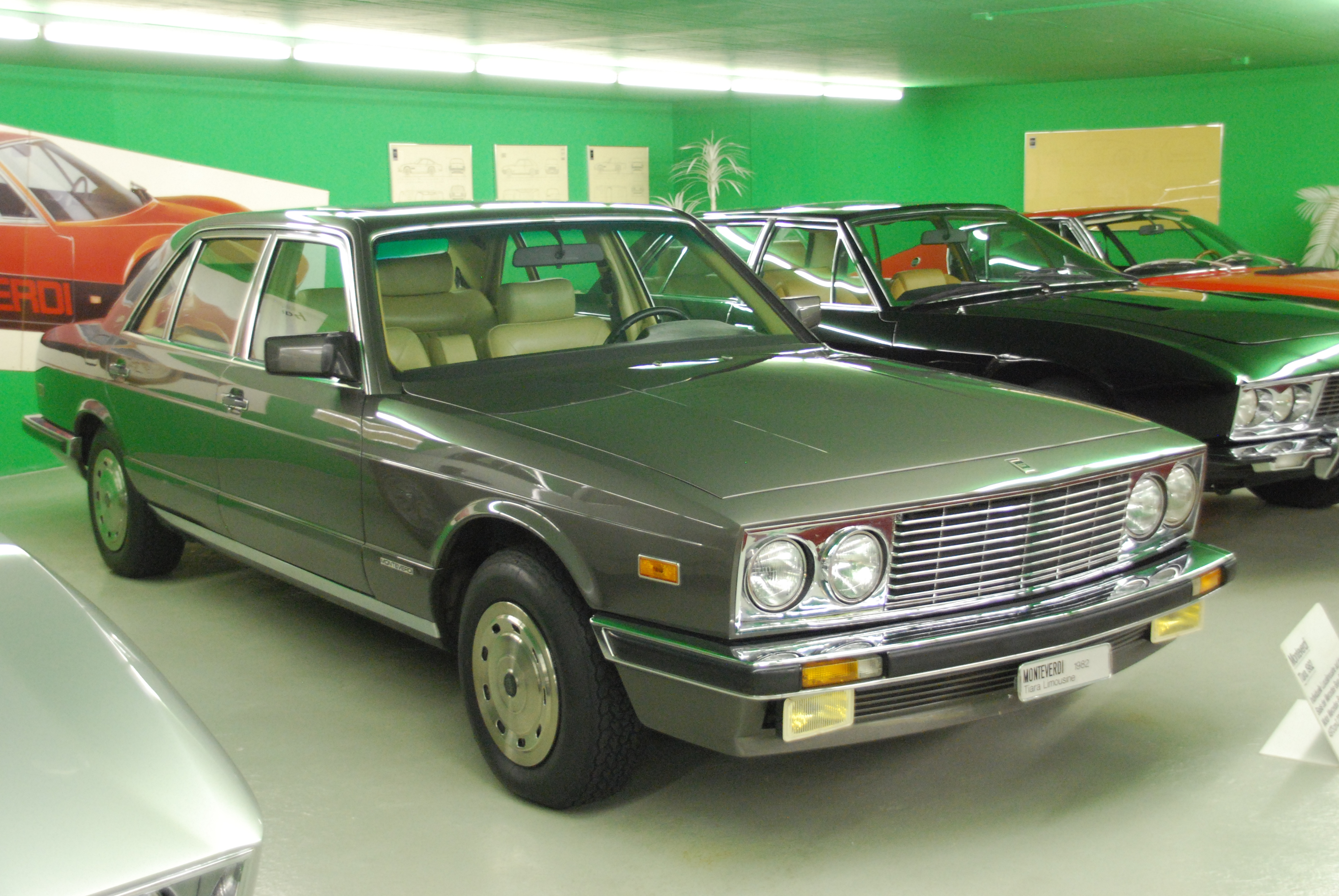 Monteverdi Tiara (1982)